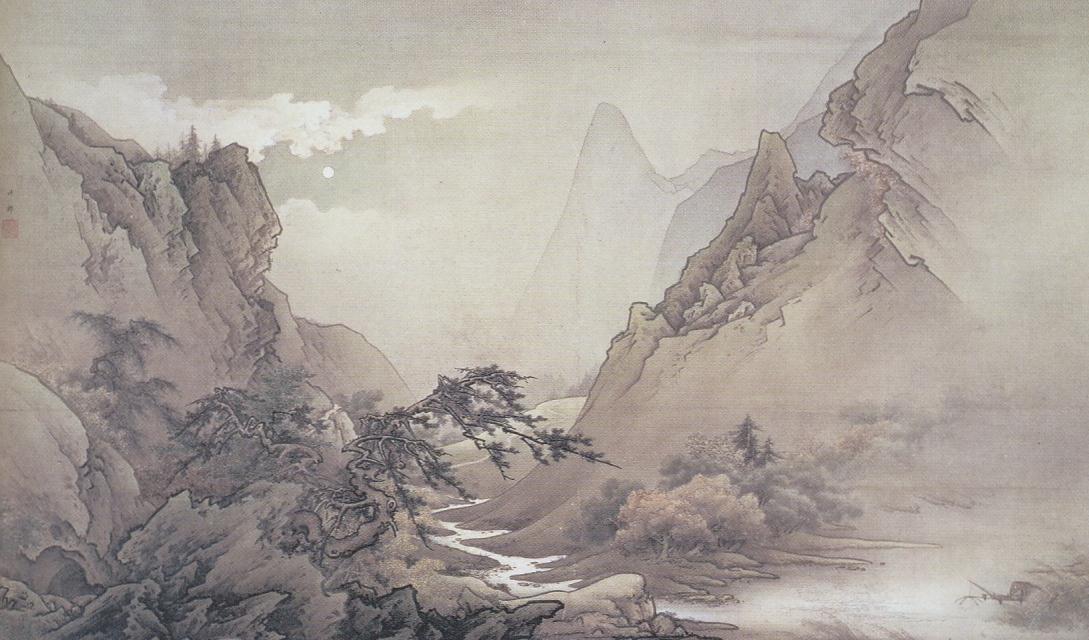 "Moonlit Landscape."